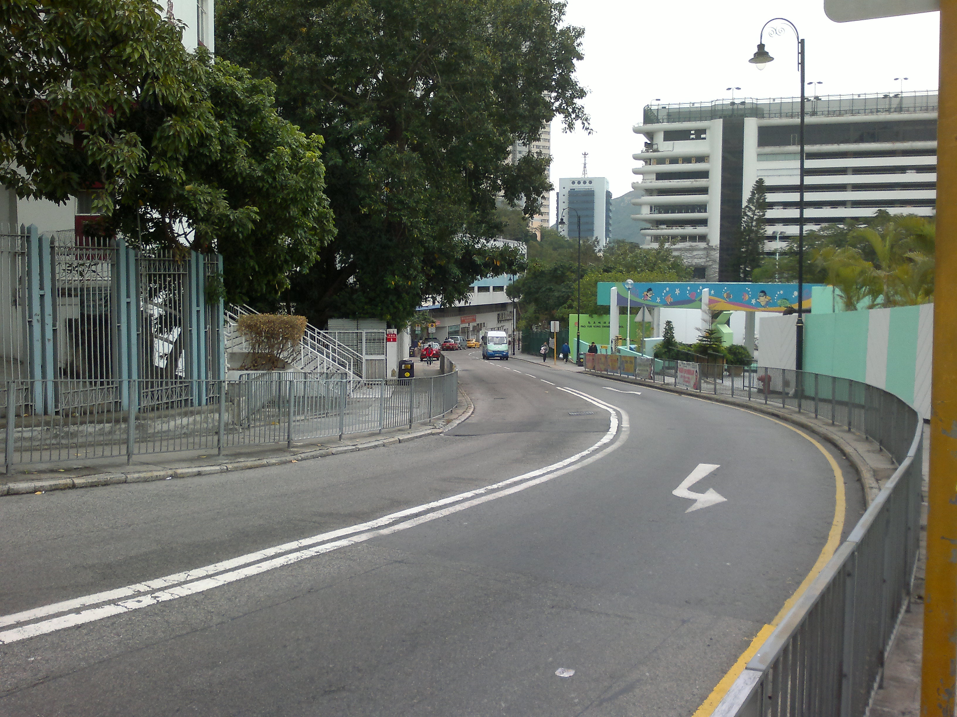 Sham Wan Road